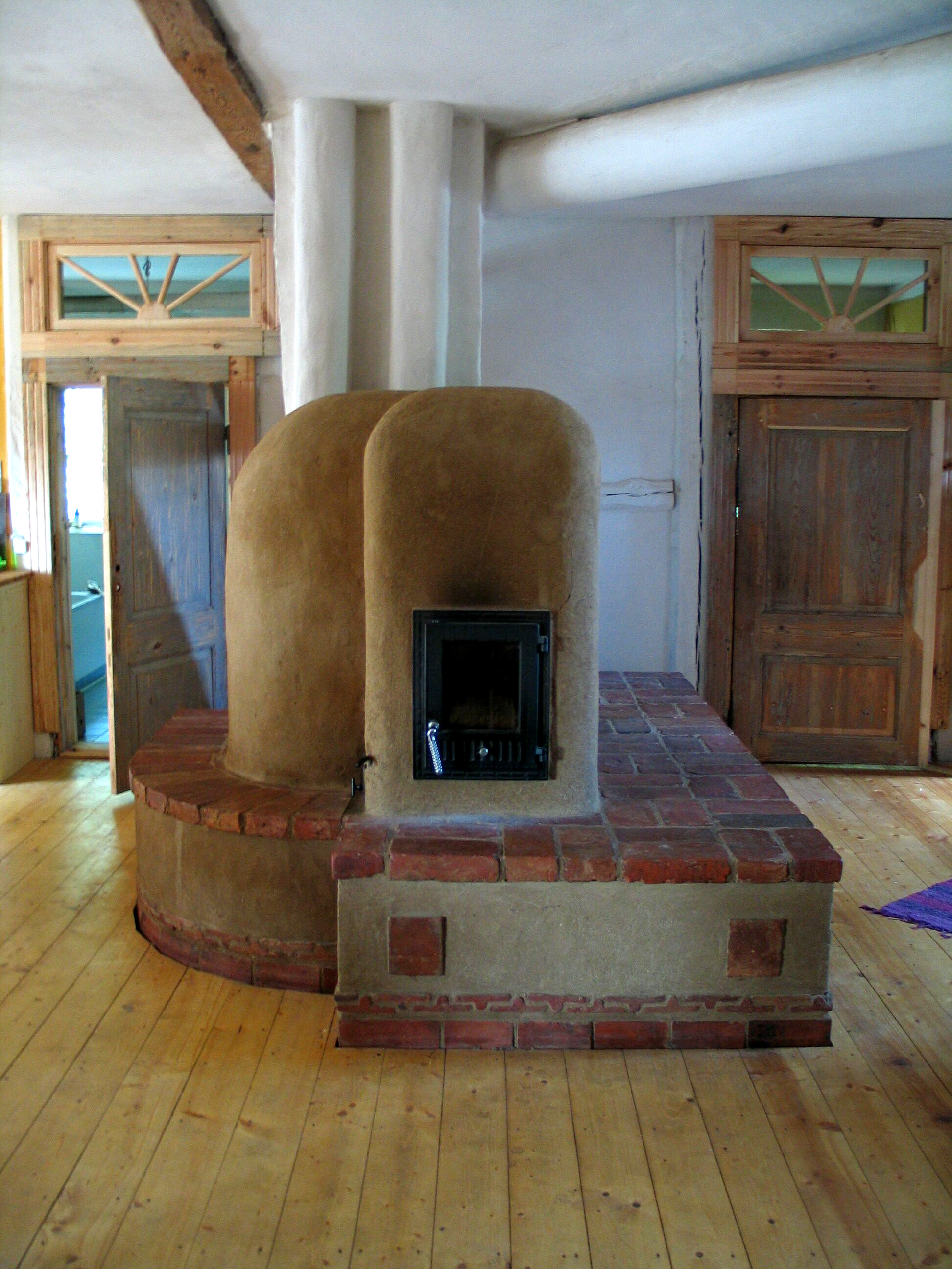 Claystove with a bench in a half-timbered house in Northern Germany.